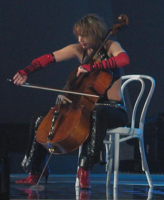 Cello player